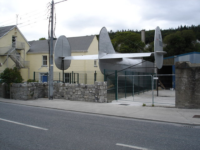 Foynes Flying Boat Museum. Foynes became the centre of the aviation world from 1939 to 1945. On July 9th 1939, Pan Am's luxury Flying Boat, the "Yankee Clipper" landed at Foynes. This was the first commercial passenger flight on a direct route from the USA to Europe. During the late 1930s and early 1940s, this quiet little town on the Shannon became the focal point for air traffic on the North Atlantic. Really enjoyed this museum, and going round the flying boat was excellent - flying actually looked like a good way to travel.